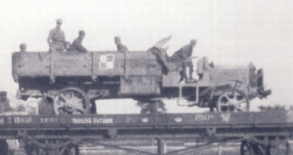 Polish soldiers loading a Frist-Series Liberty truck on a train car. Note the Polish Air Force insignia on the side of the Cargo body. They were most likely used for the towing and transport of Aircraft. ca. 1919-21